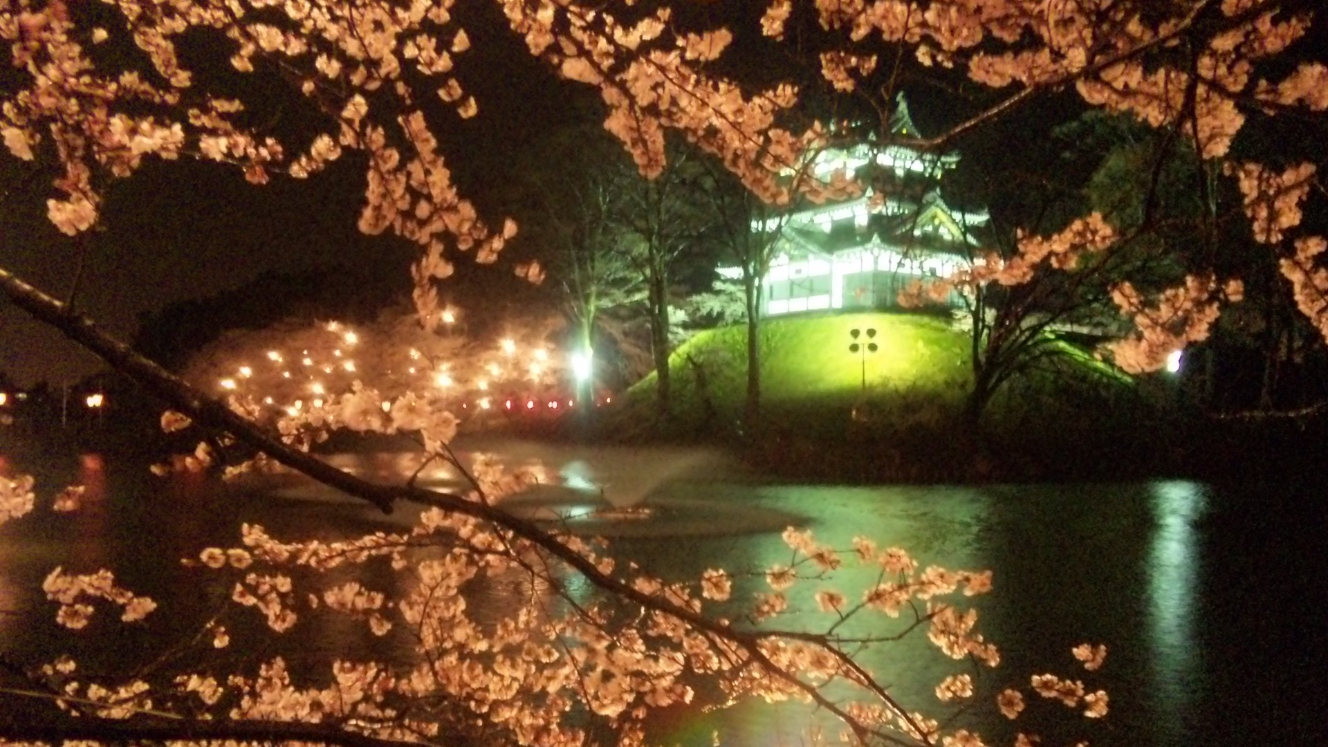 Takada castle ruins. Joetsu City,Niigata,Japan